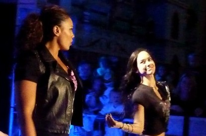 AJ Lee (right) and Tamina (left) on 16 November 2013 in Minehead in a WWE show. Cropped from original.